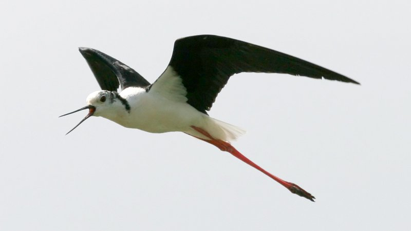 Black-Winged Stilt (Himantopus himantopus)